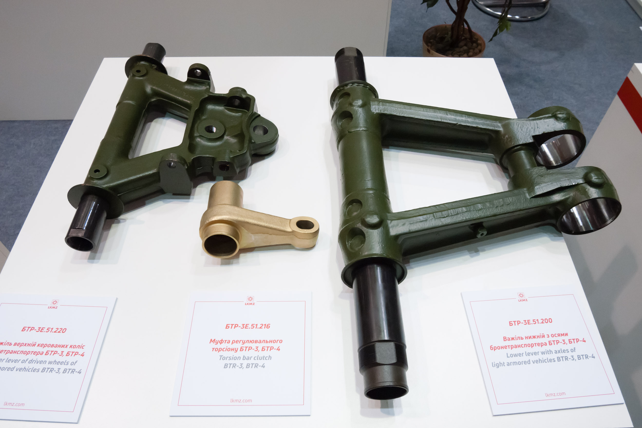 BTR-3, BTR-4 drivetrain parts by LKMZ, 'Zbroya ta Bezpeka' military fair, Kyiv, Ukraine, 2018